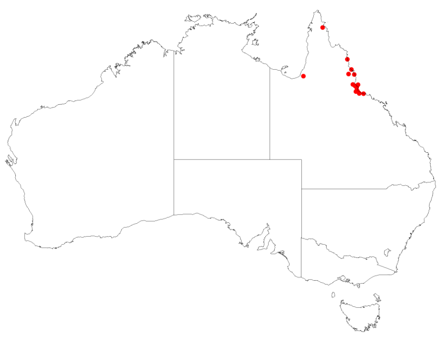 Amylotheca subumbellata Occurrence data map from GBIF downloaded 27 February 2019 using DOI